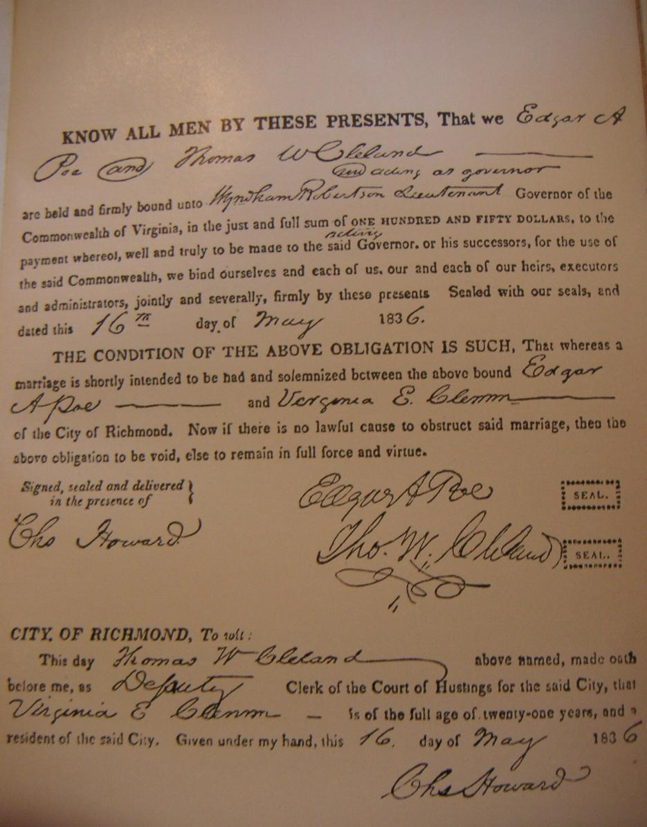 The Marriage bond of Edgar Allan Poe and Virginia Clemm. From a 1900 edition of James A. Harrison's Life and Letters of Edgar Allan Poe